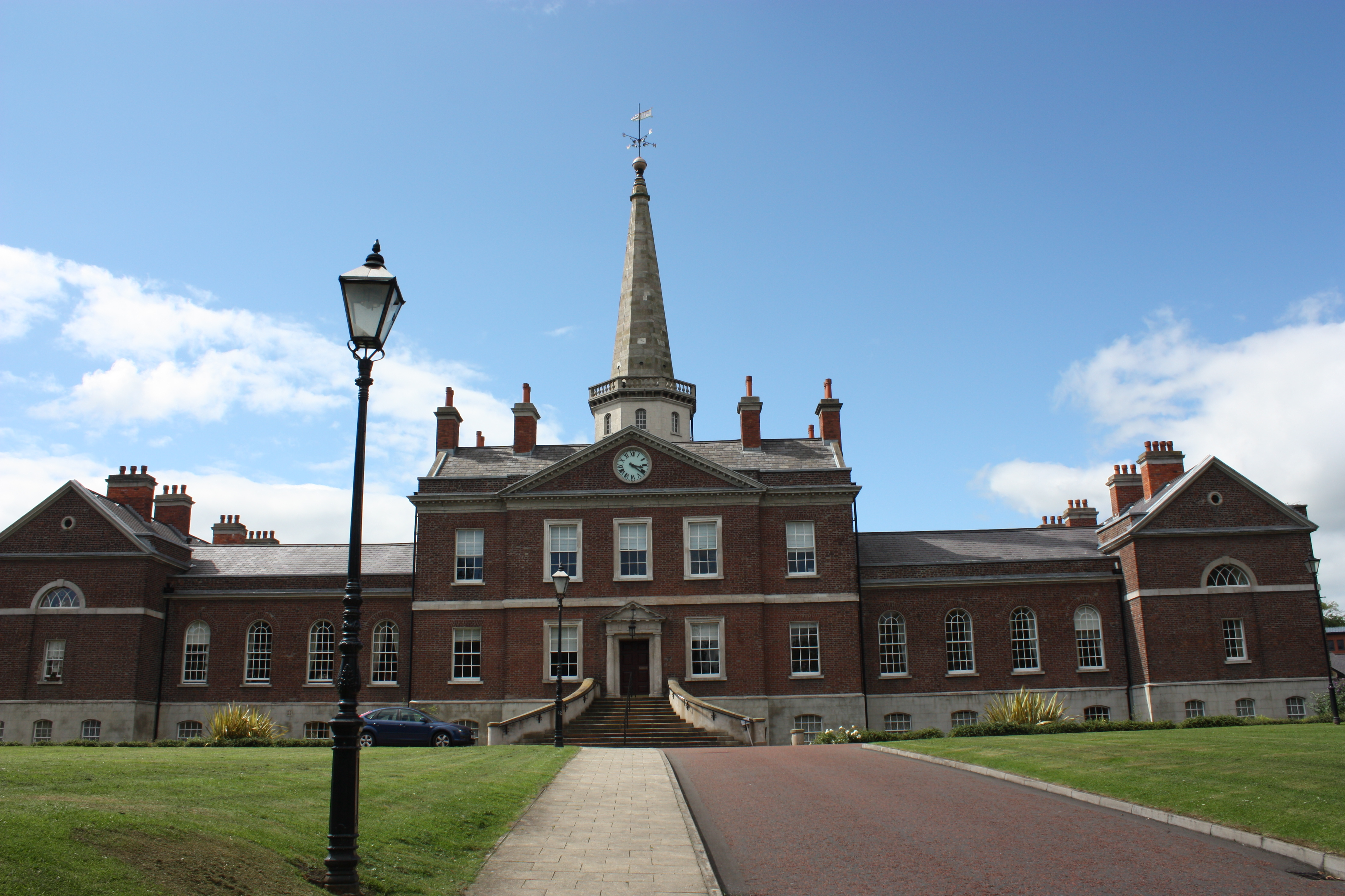 Clifton House, North Queen Street, Belfast, Northern Ireland, July 2010